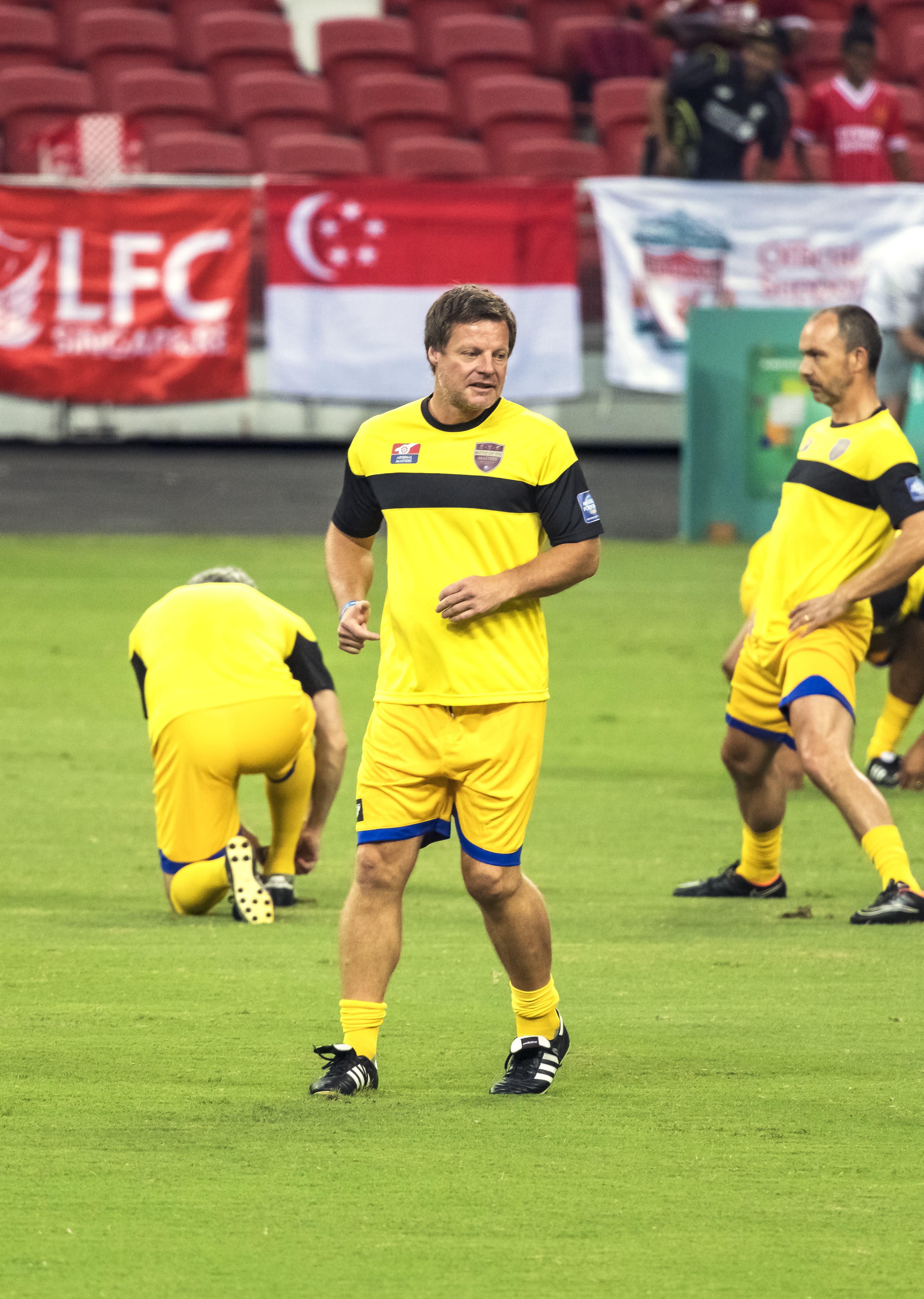 Stefan Schwarz arsenal masters singapore national stadium 2017